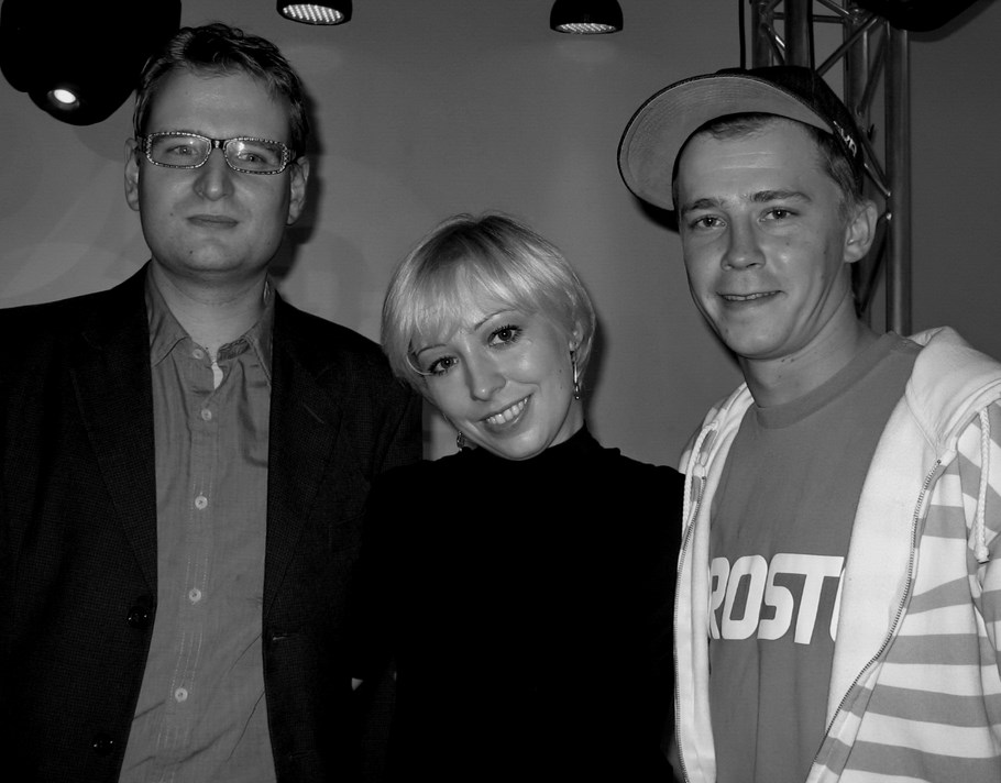 Adrian Konarski & Magdalena Piekorz & Bartosz Obuchowicz during promo meeting of "Senność" -film.